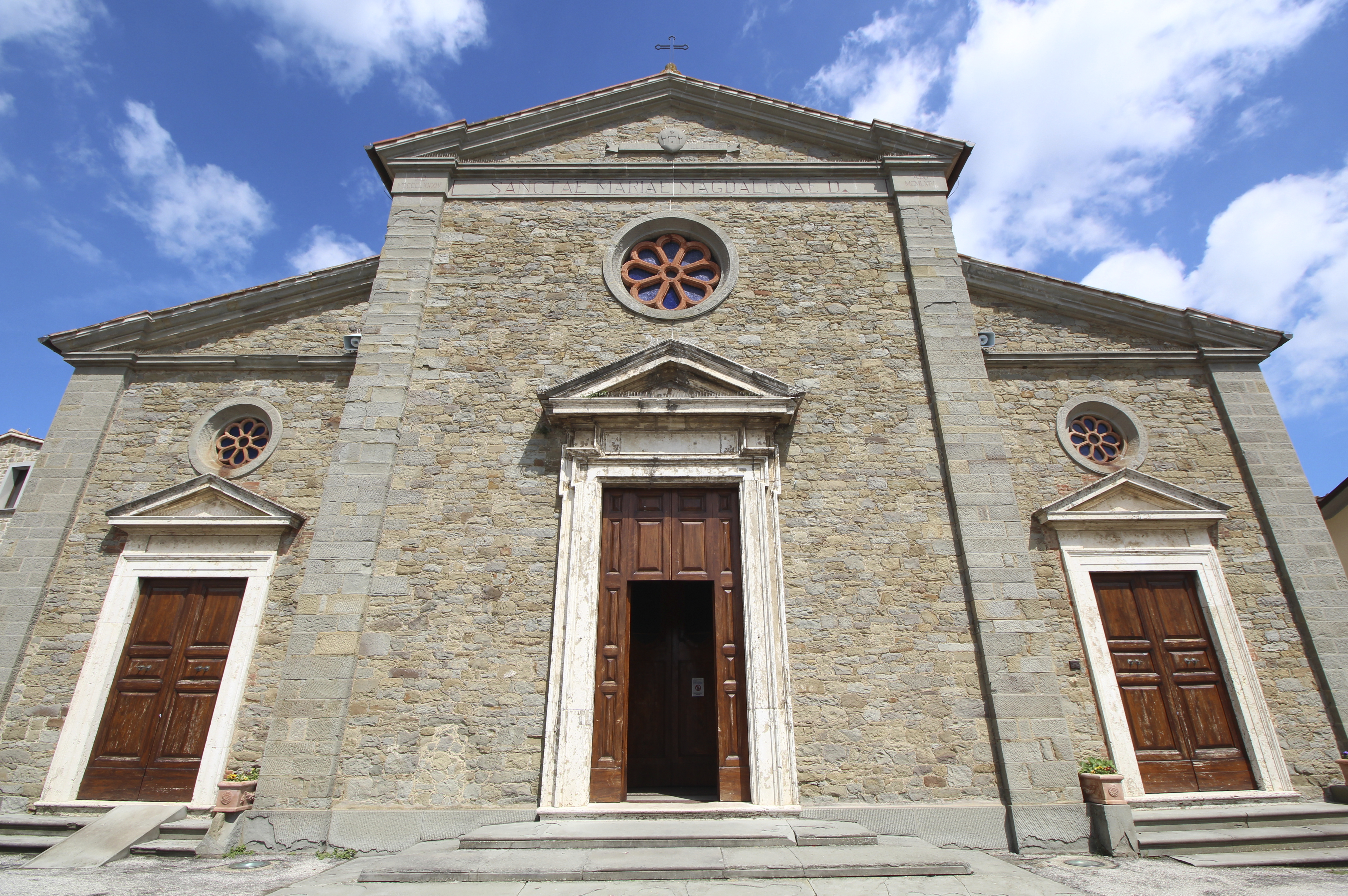 Church Santa Maria Maddalena, city center of Tuoro sul Trasimeno, Umbria, Italy